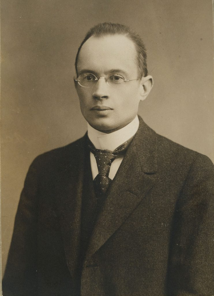 Potrait of the Finnish physicist Gunnar Nordström.